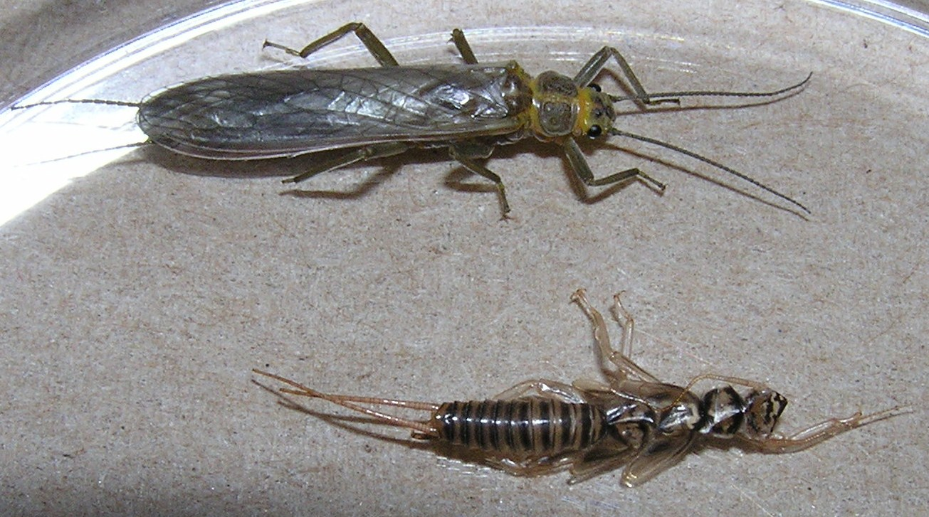 Female Hydroperla crosbyi and exuvium. IN, W Fk. White River, 6/2006.